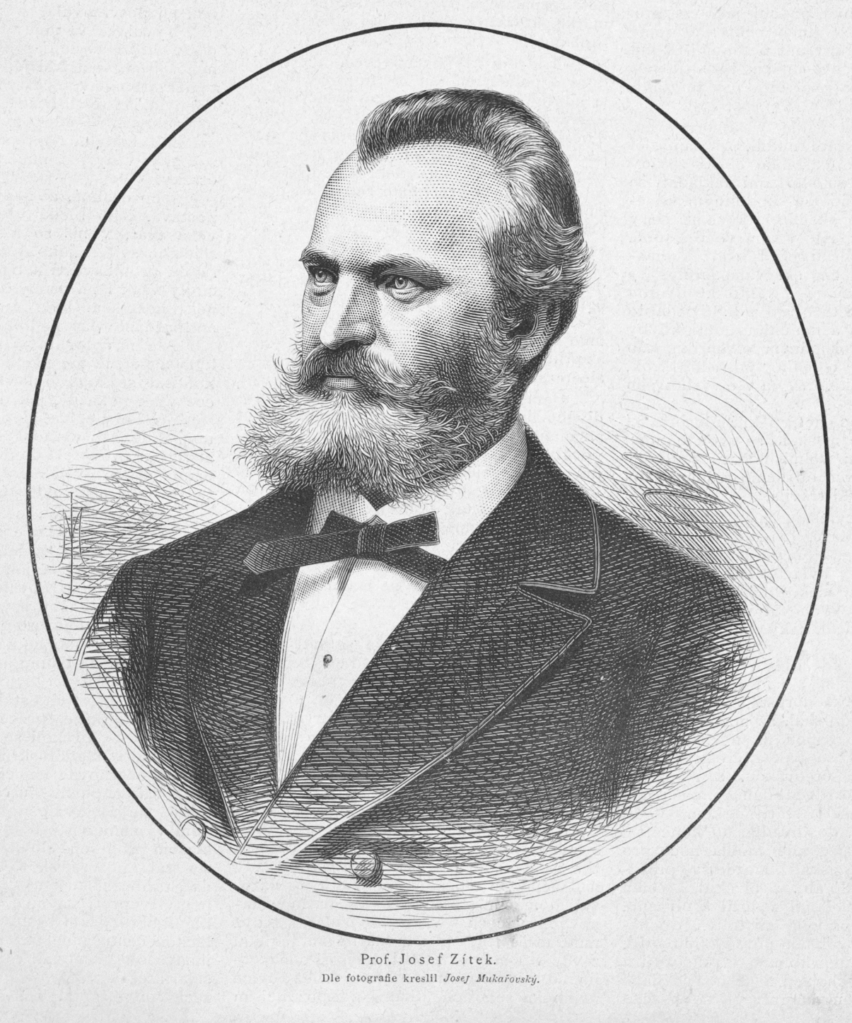 Portrait of Josef Zítek (1832-1909) was a Czech architect.